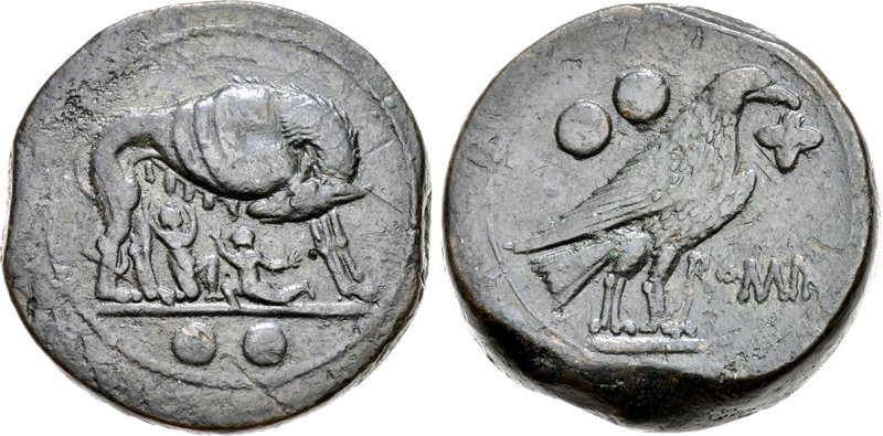 Rome Anonymous. Circa 217-215 BC. Æ Sextans (29mm, 25.93 g, 8h). Semi-Libral standard. Rome mint. She-wolf standing right, head left, suckling the twins Romulus and Remus; •• (mark of value) in exergue Eagle standing right, holding flower in its beak; •• (mark of value) behind, RoMA before. Good VF, dark green patina, occasional scratch. Property of Princeton Economics acquired by Martin Armstrong.